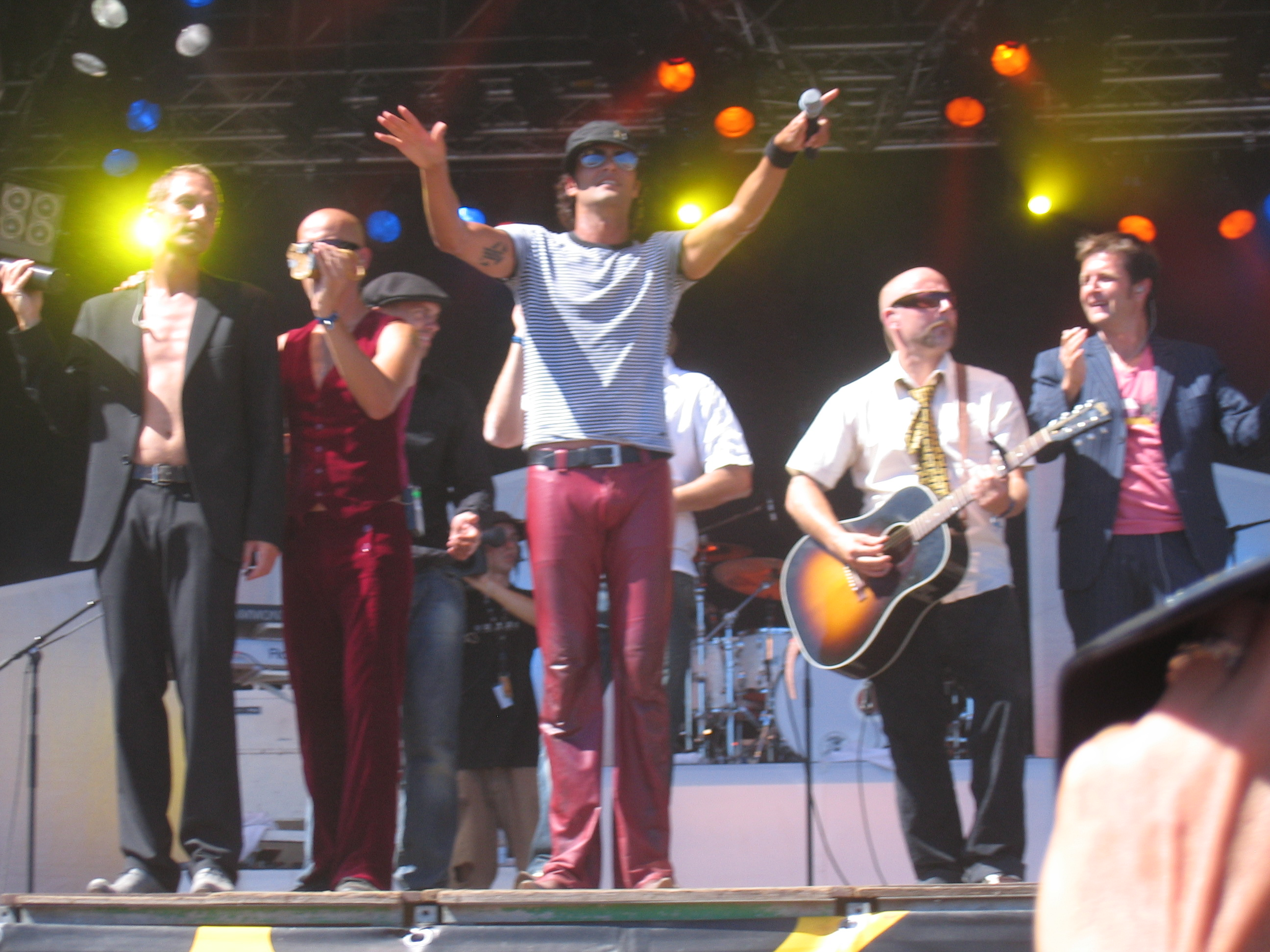 Picture of the Danish band "Zididada". Taken on Langelandsfestivalen 2006 by User:Lhademmor.